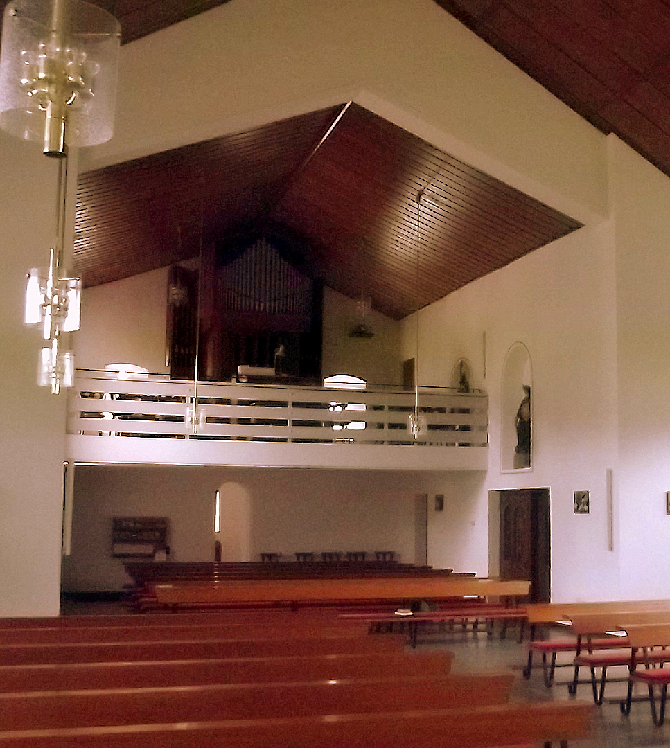 Interior of the roman catholic church in Rimlingen, Saarland, Germany